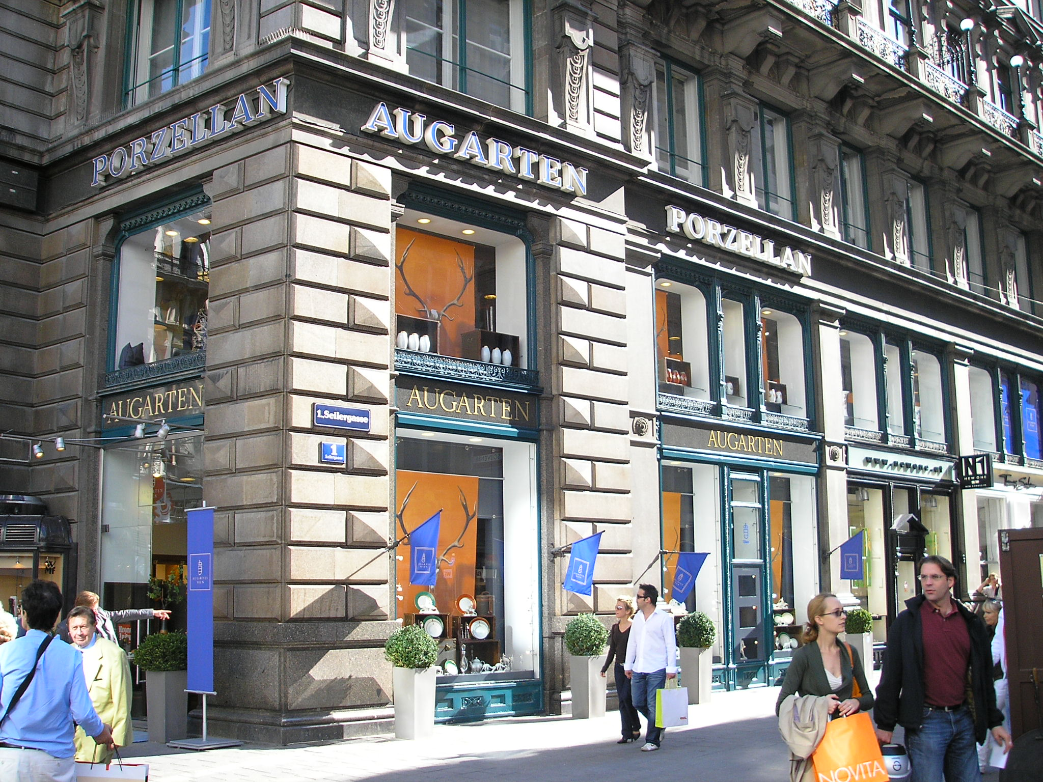 Image of the store Augarten at the Graben street in Vienna's first district. Former purveyor to the imperial and royal court (k.u.k. Hoflieferant).